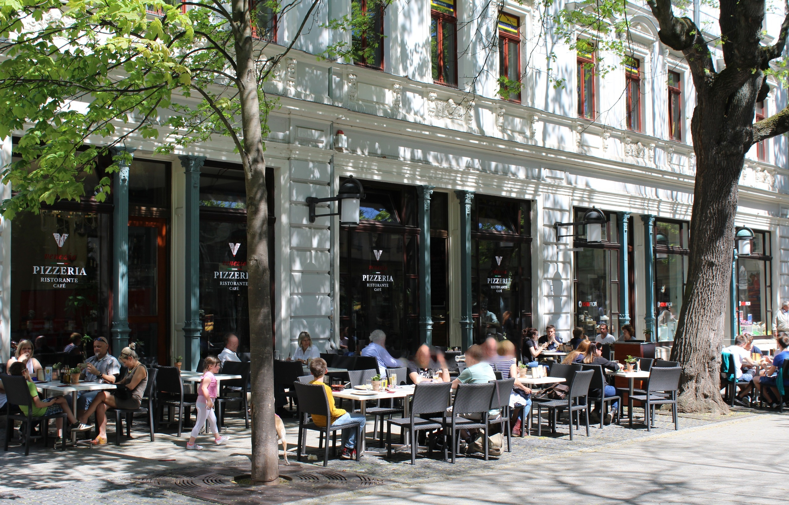 Weimar, the Pizzeria da Marco